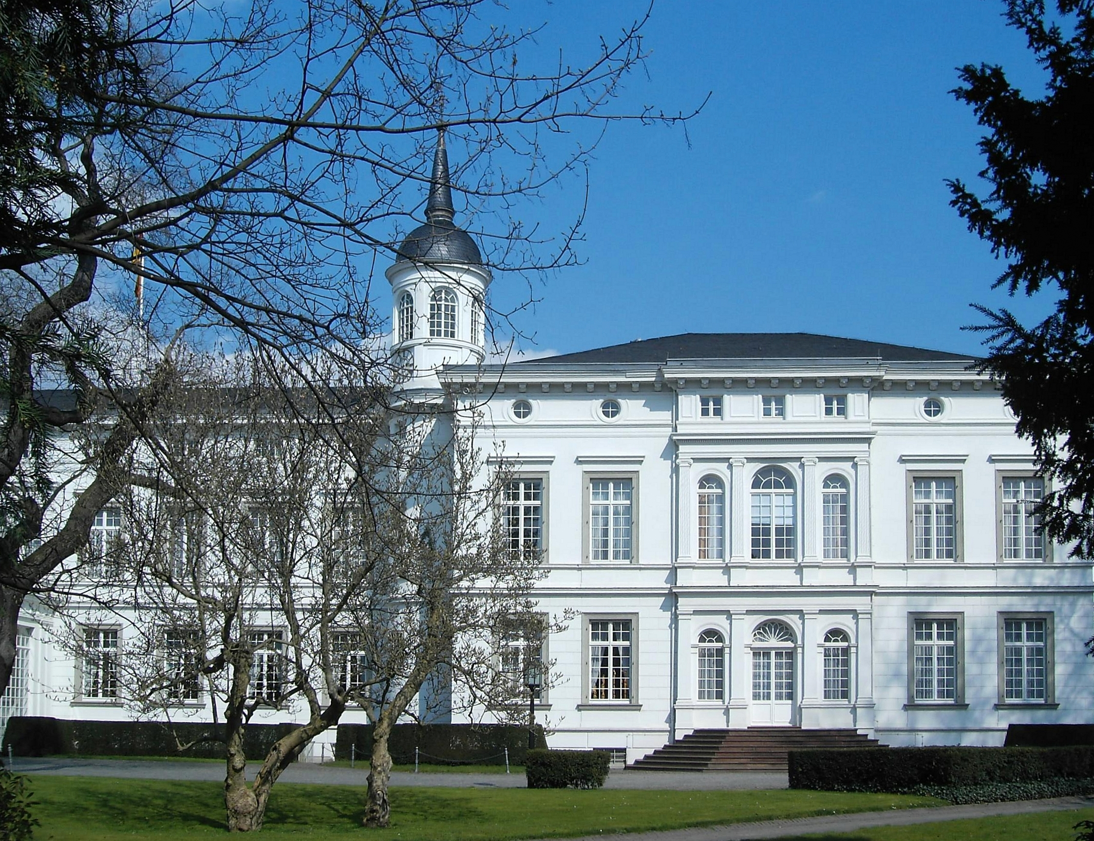 Palais Schaumburg, second residence of the federal chancellery in Bonn since 2001.